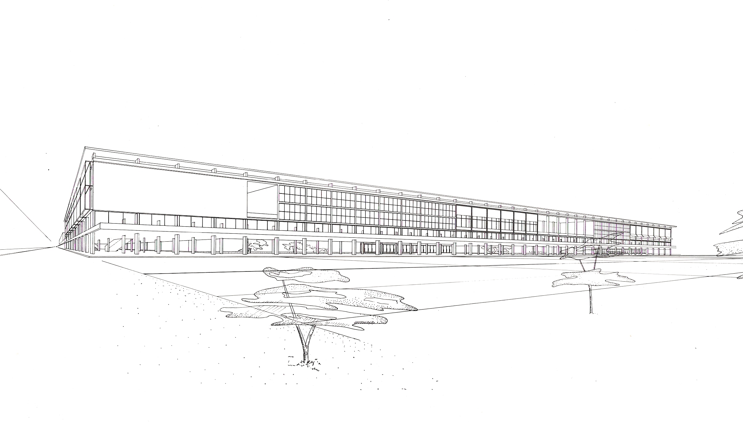 Draft published by Giuseppe Pagano in “Casabella-Costruzioni”, n. 158, febbraio 1941, pp. 24-26